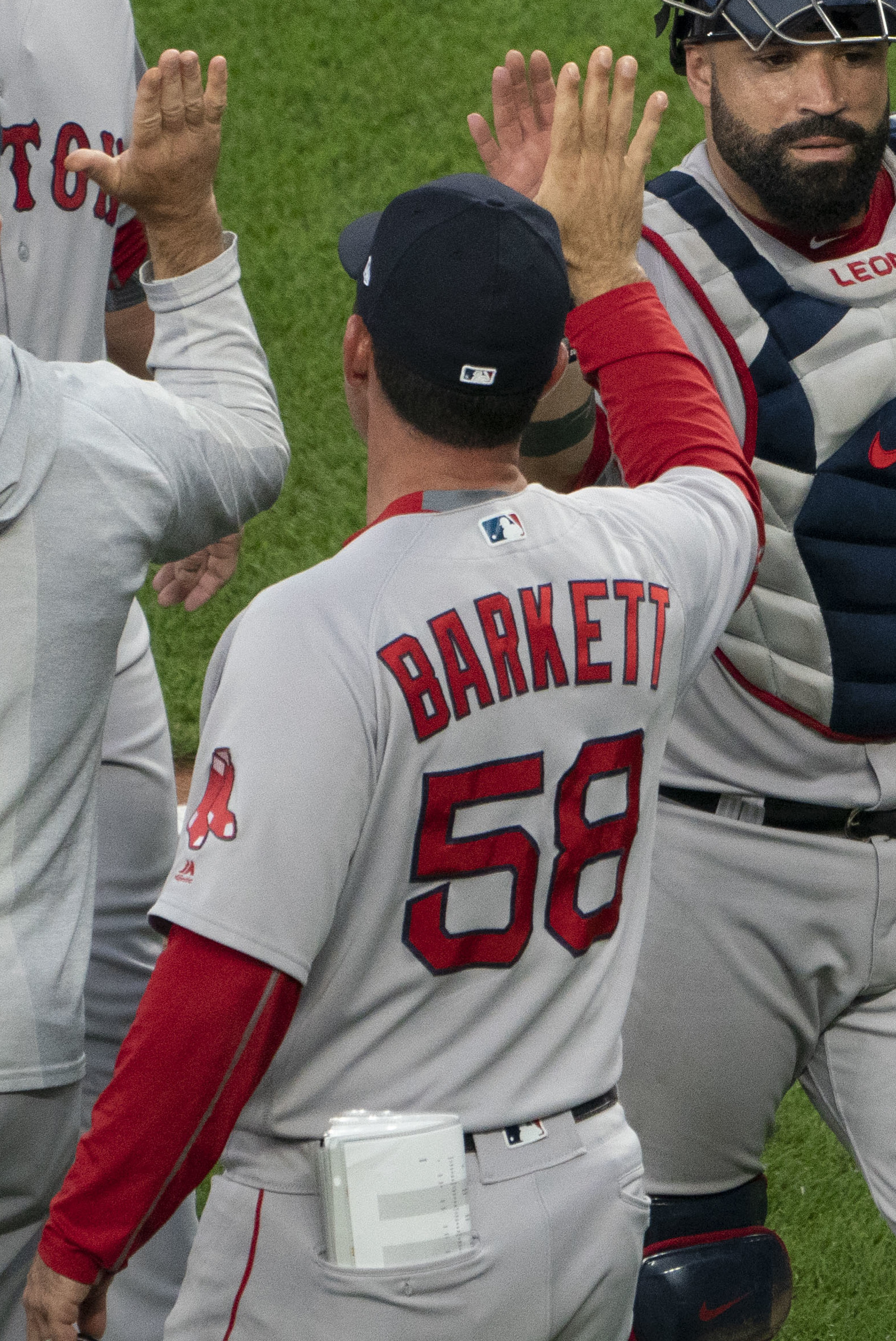 Members of the Boston Red Sox congratulate each other after a win over the Baltimore Orioles at Camden Yards in Baltimore in 2018